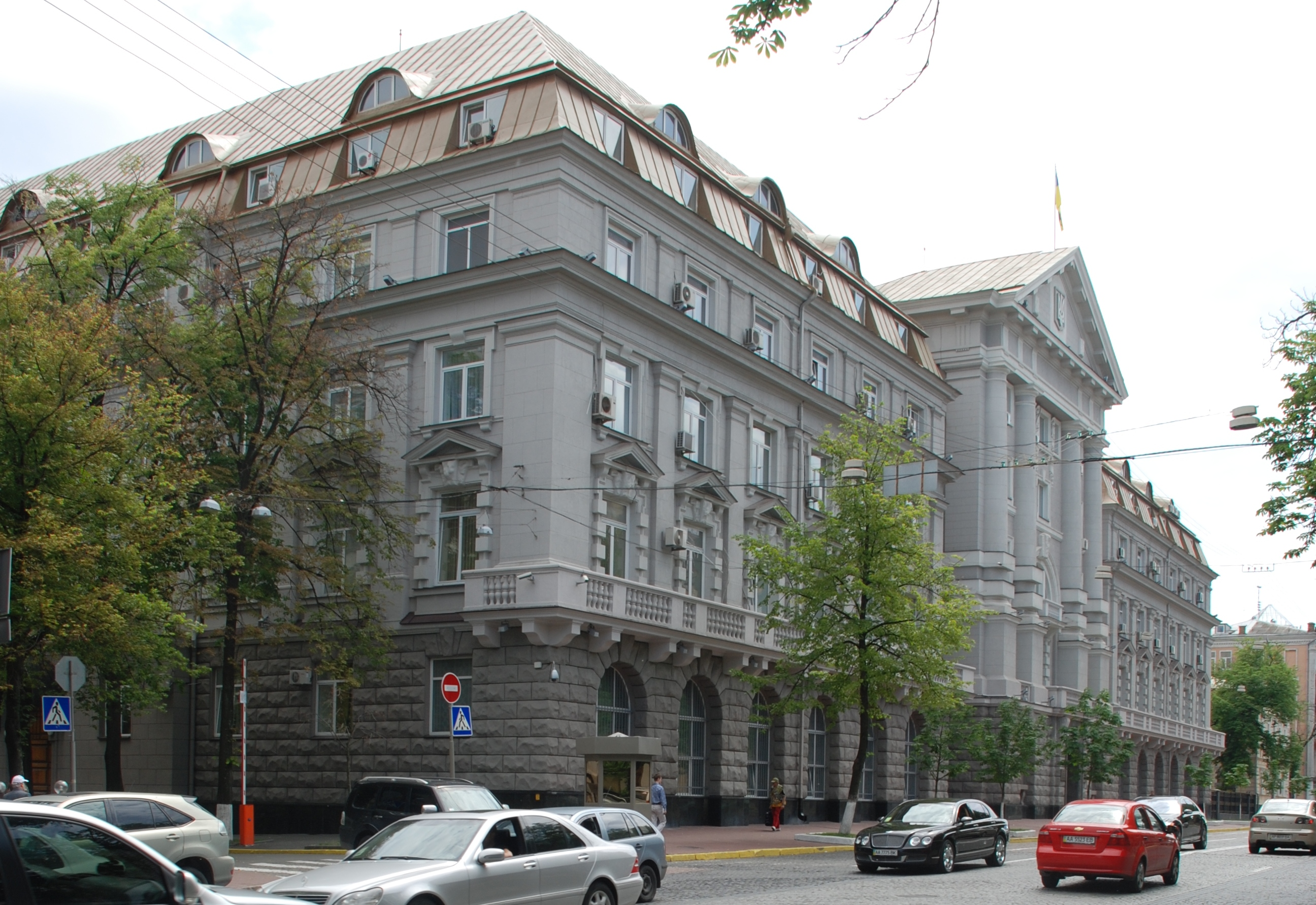 SBU Headquarters (Kiev)